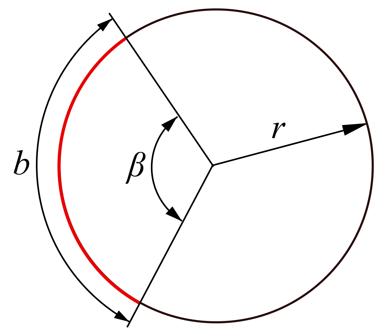 Circle sector, arc